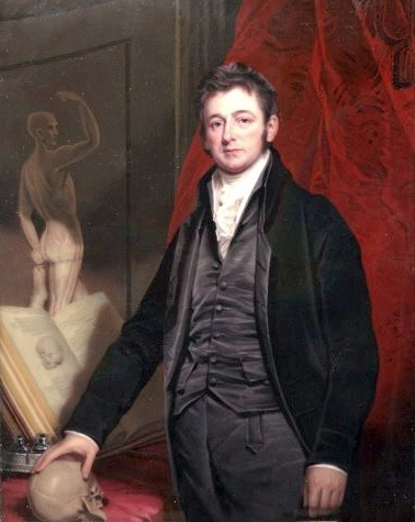 Sir Anthony Carlisle (15 Feb 1768-2 Nov 1840). 170mm x 205mm miniature portrait in enamel on copper